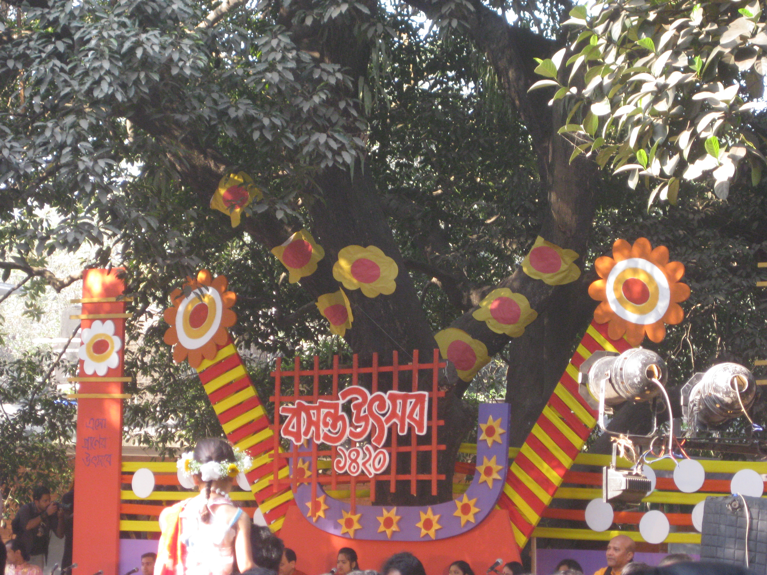 1st day of Spring (Pohela Falgun) at Faculty of Fine arts, University of Dhaka, 13 February, 2014